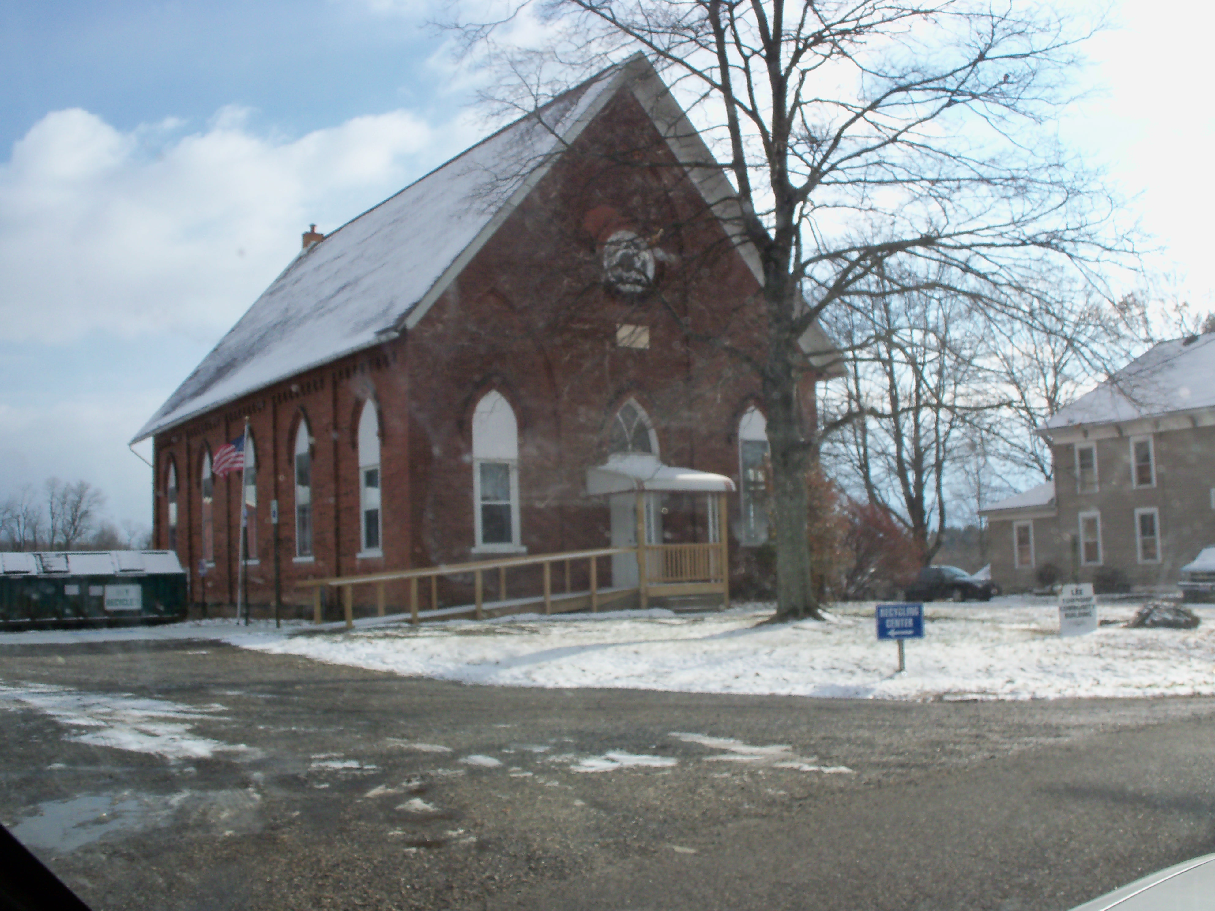 The Community Building and meeting house of Lee Township, Carroll County, Ohio. Originally a Methodist church built in 1848, the township took it as a community building after the new church was built across the street.